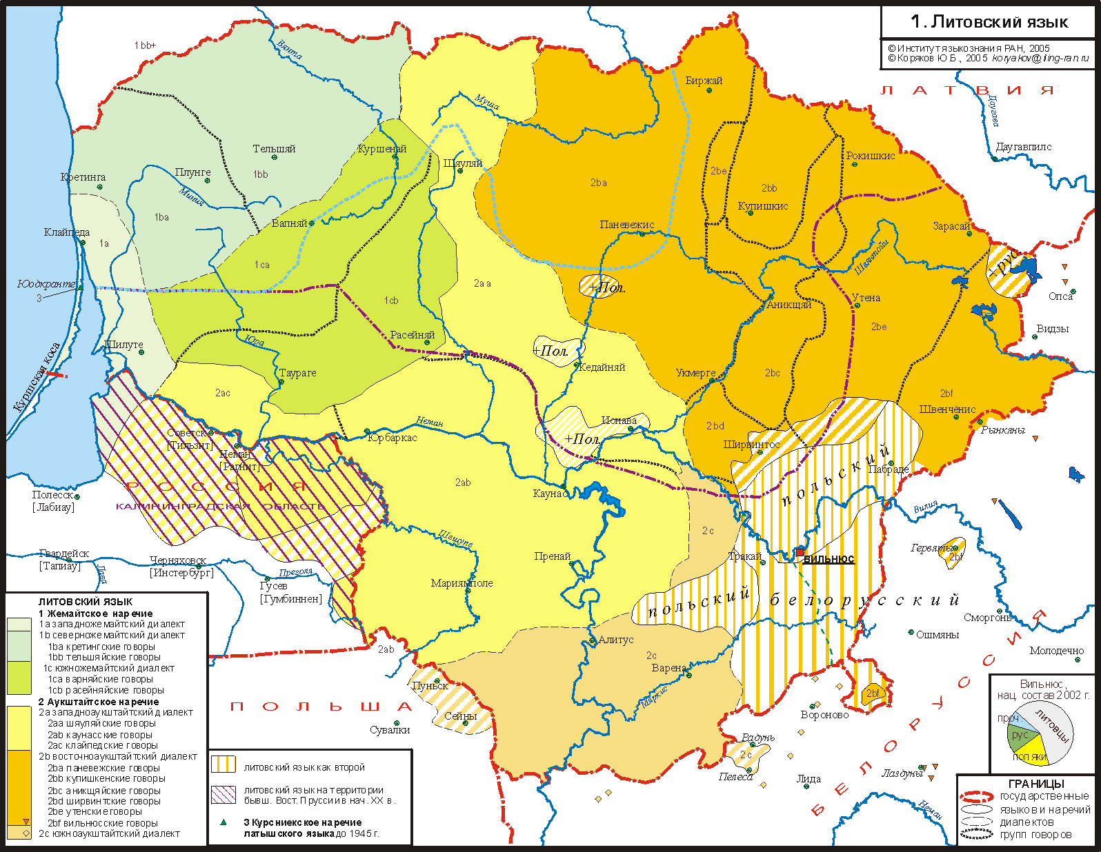 the modern dialects of the Lithuanian language